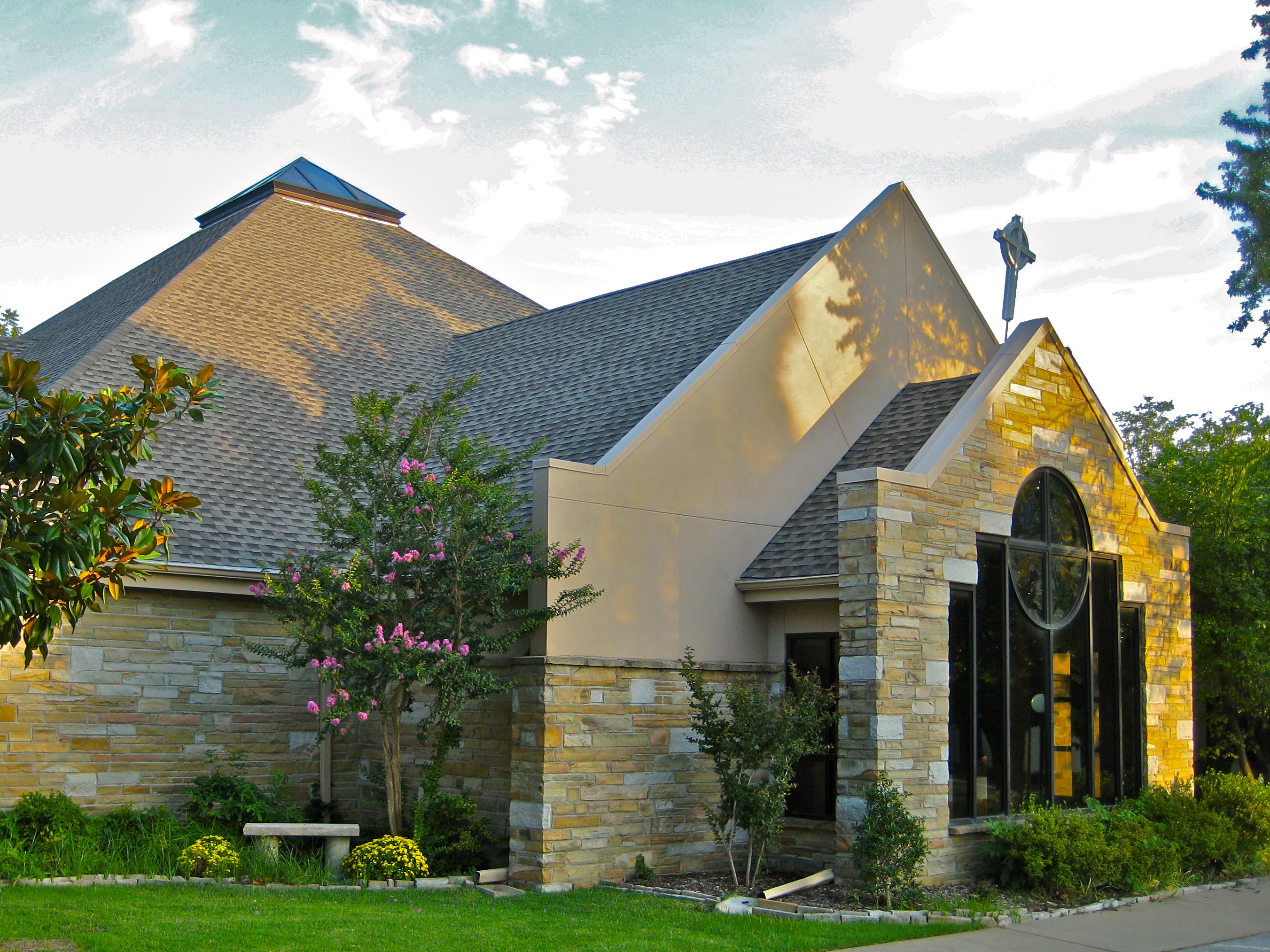 The St. Philip Neri Catholic Newman Center at the University of Tulsa in Tulsa, Oklahoma, USA. The facility was completed in 1991.